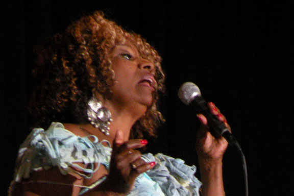 Brenda Holloway performing at a memorial tribute for the late Tommy Jacquette, founder of the Watts Summer Festival — on Saturday, 28 Nov 2009.